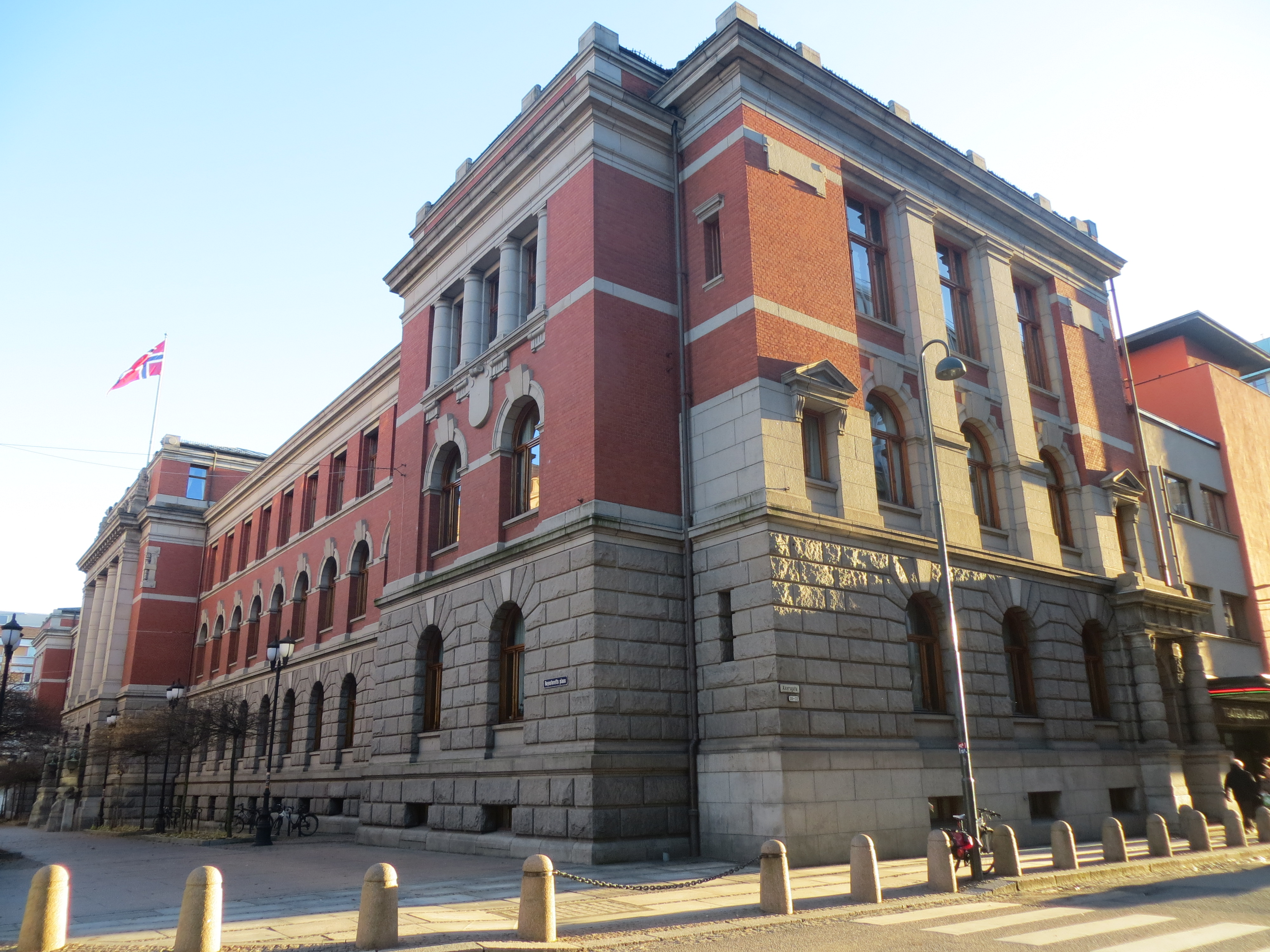 Image from Central Oslo, Norway. This is the Supreme Court of Norway (Høyesterett).